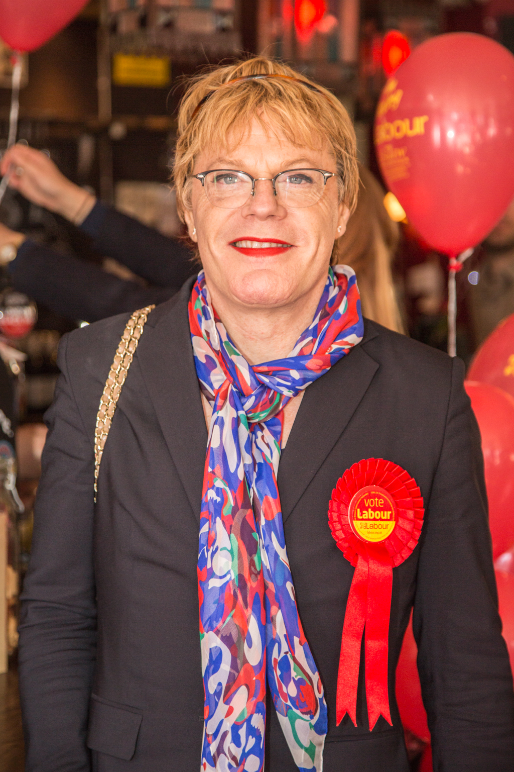 Eddie Izzard at a Labour Party rally in Crouch End on 14 April 2015.